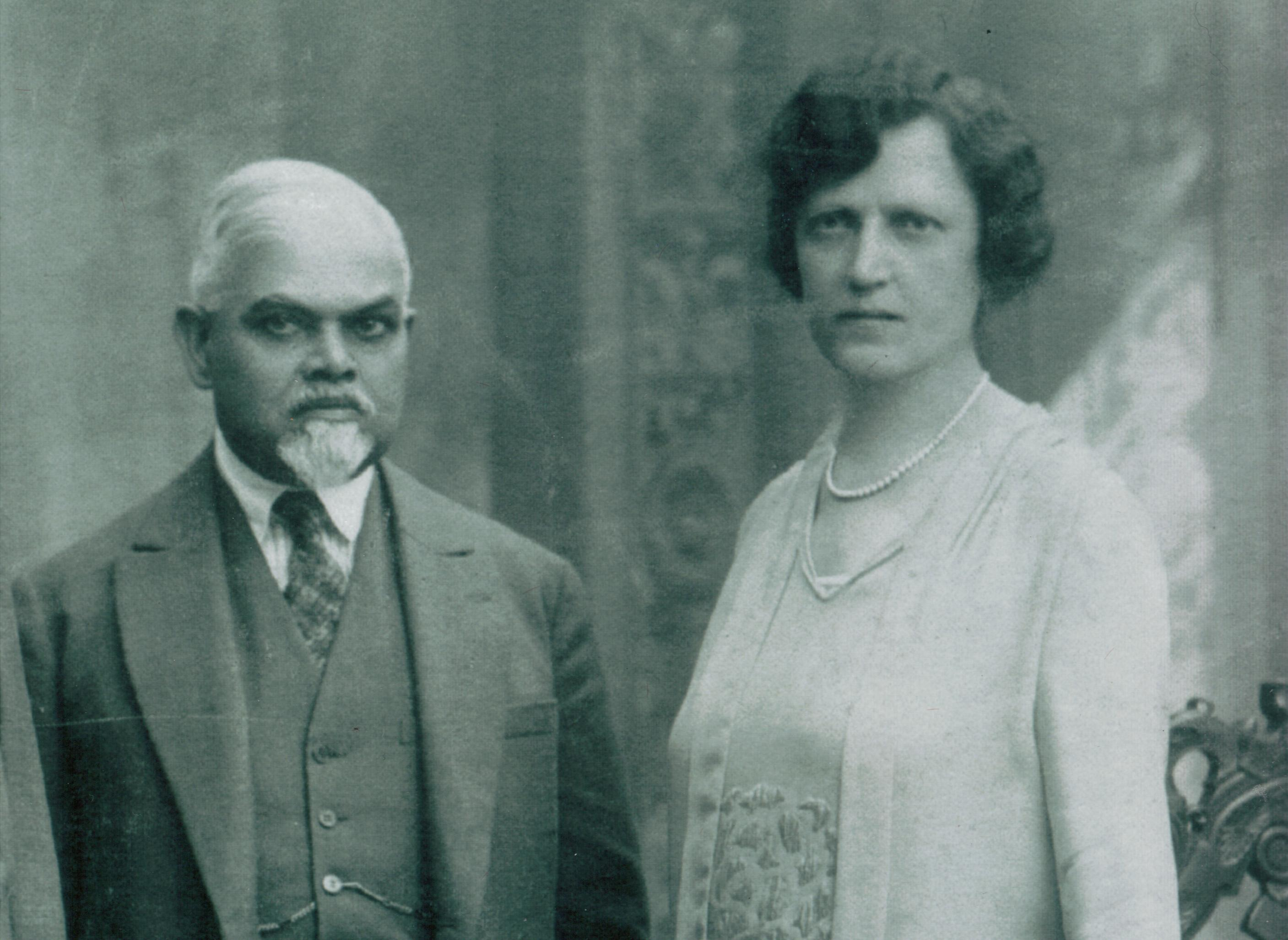 S. R. Rana with his German wife at India House in 1905, Lala Lajpat Rai is cropped out of image